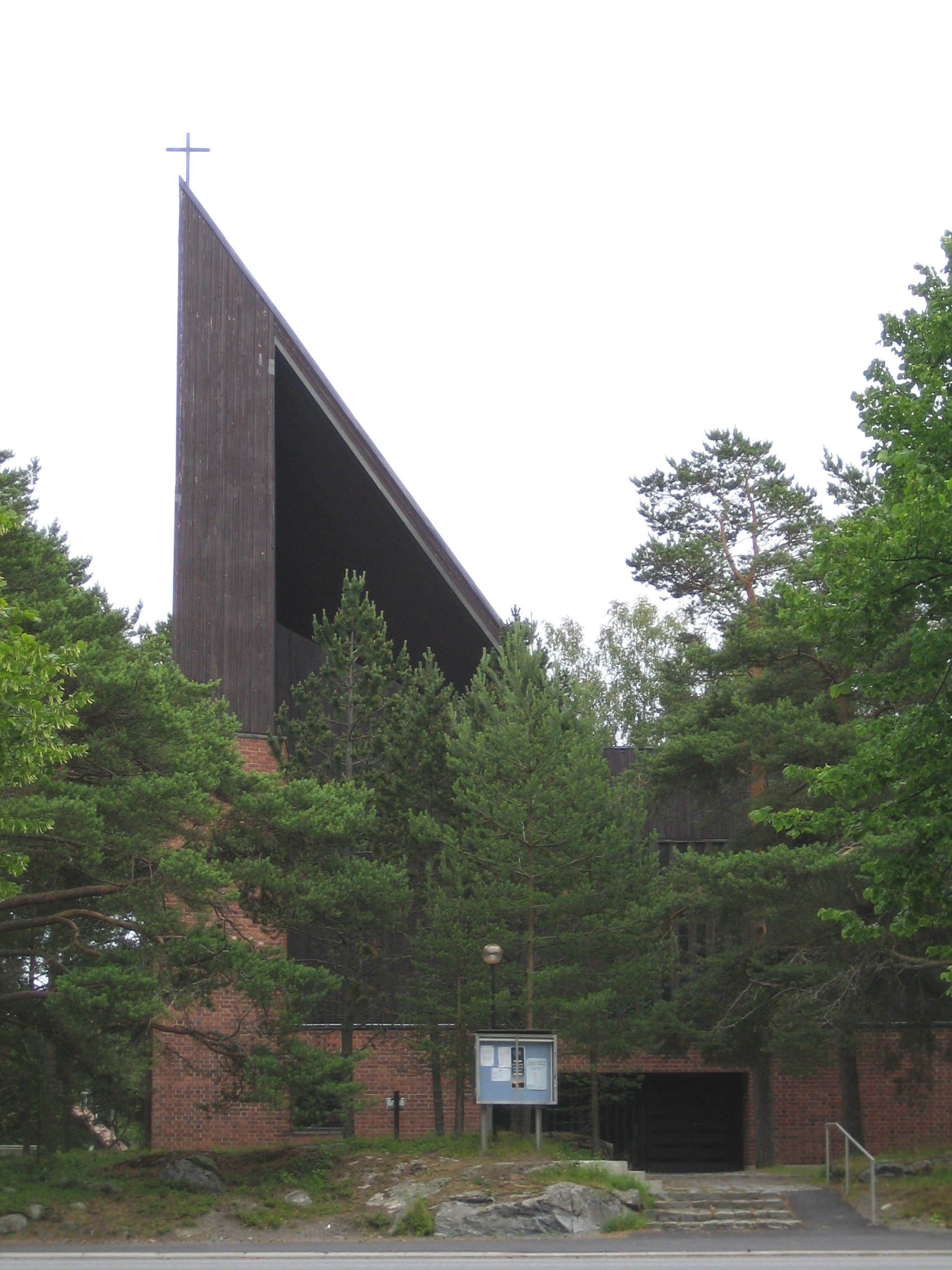 Kaskinen Church in Kaskinen, Finland. Completed in 1965. Architect: Erik Kråkström.